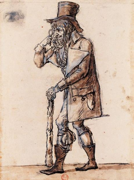 The Incroyables were males who wore extreme or cutting-edge fashions in the 1790s (their female counterparts were the Merveilleuses).